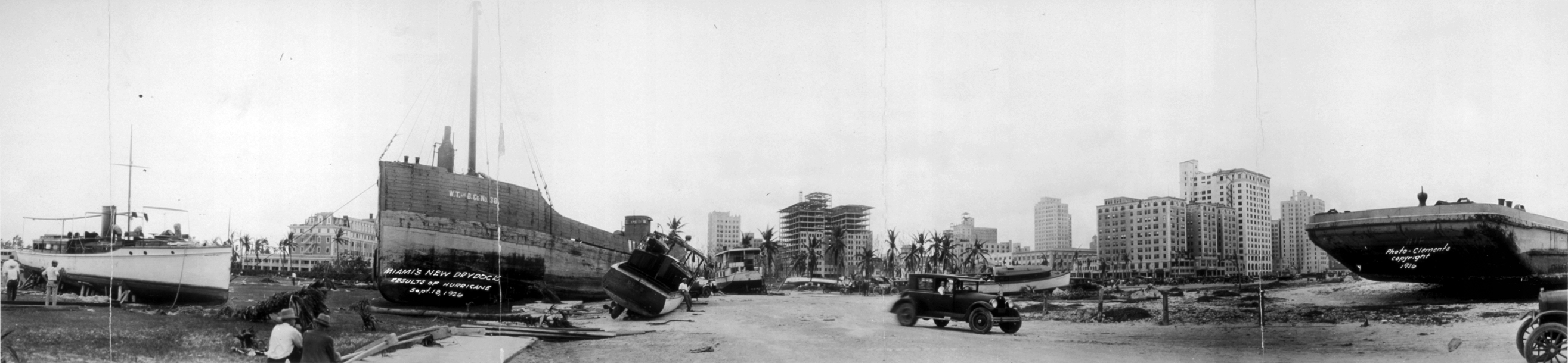 Data from page at Library of Congress website: TITLE: Miami's new drydock, results of hurricane, Sept. 18, 1926 CALL NUMBER: PAN US GEOG - Florida no. 57 (E size) [P&P] REPRODUCTION NUMBER: LC-USZ62-126498 (b&w film copy neg.) RIGHTS INFORMATION: No known restrictions on publication. No renewal found in Copyright Office. MEDIUM: 1 photographic print : gelatin silver ; 9.5 x 39.5 in. CREATED/PUBLISHED: 1926 September 18. RELATED NAMES: Clements, R. S. (Rell Sam), copyright claimant. NOTES: J285671 U.S. Copyright Office Copyright deposit; R. S. Clements; October 18, 1926. SUBJECTS: Boats. Hurricanes. United States--Florida--Miami. FORMAT: Gelatin silver prints. Panoramic photographs. PART OF: Panoramic photographs (Library of Congress) REPOSITORY: Library of Congress Prints and Photographs Division Washington, D.C. 20540 USA DIGITAL ID: (digital file from intermediary roll film copy) pan 6a03305 (digital file from b&w film copy neg.) cph 3c26498 CONTROL #: 2007660796